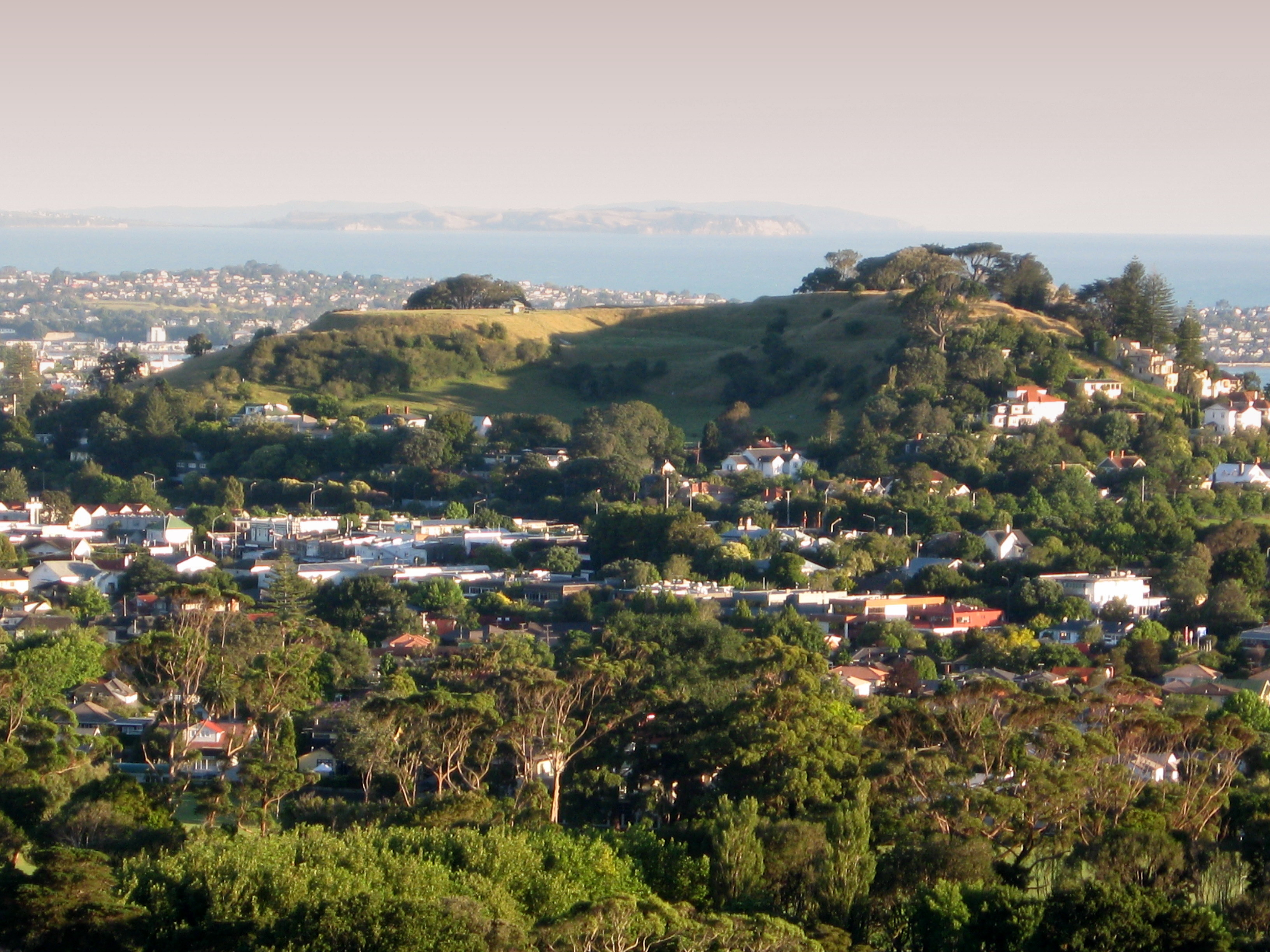 Looking out to Mt Hobson, Auckland City, from the summit of One Tree Hill. Whangaparaoa Peninsula can be seen to the far north.